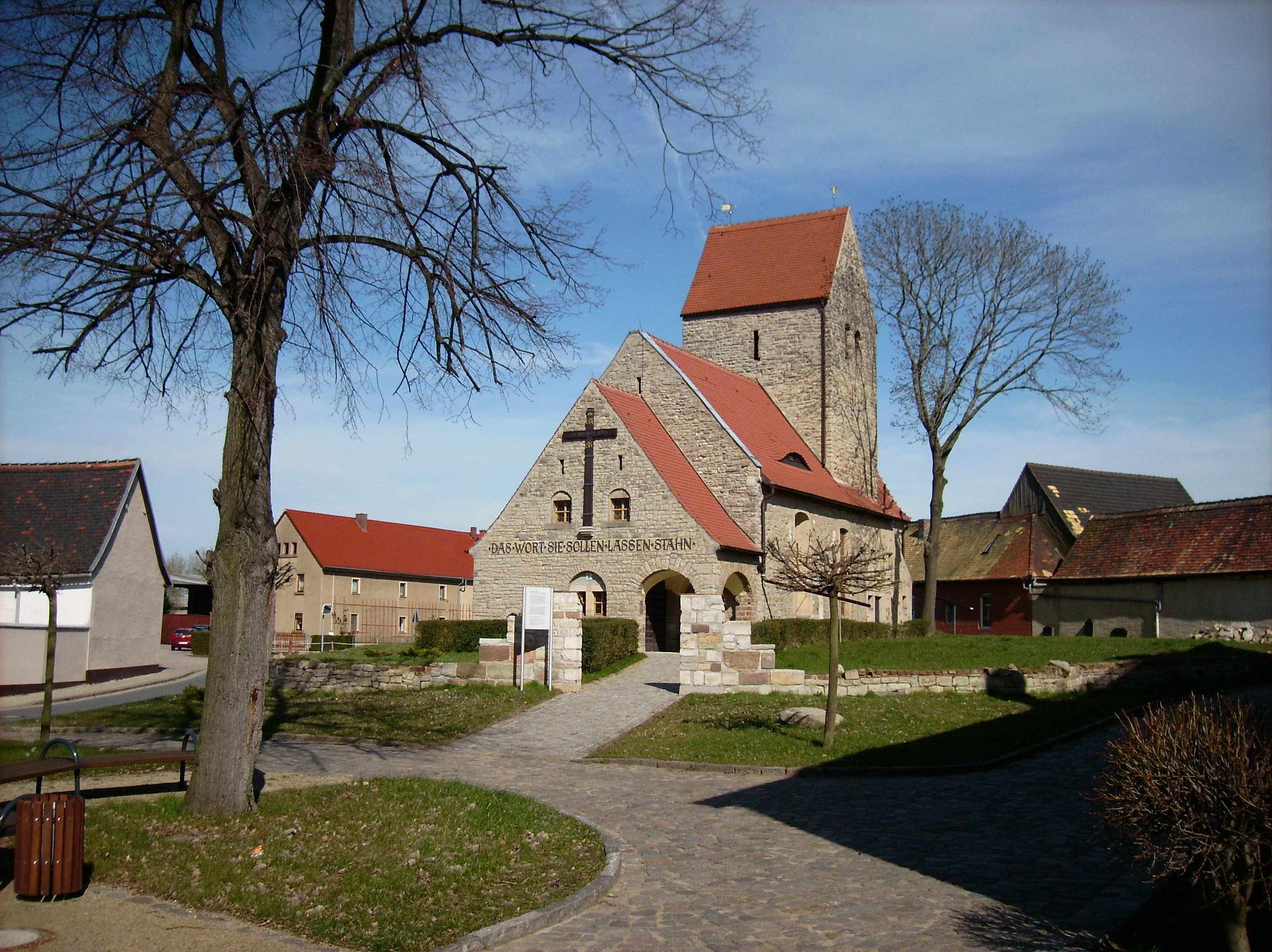 Gustavus Adolphus Memorial Church in the village of Meuchen (Lützen, district of Burgenlandkreis, Saxony-Anhalt)